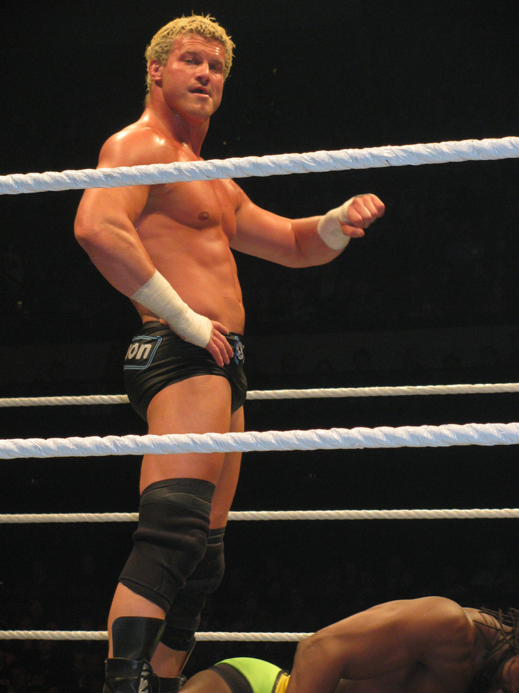 Dolph Ziggler @ Adelaide, South Australia 'RAW' house show on the 4th of July '11 (with Kofi Kingston).